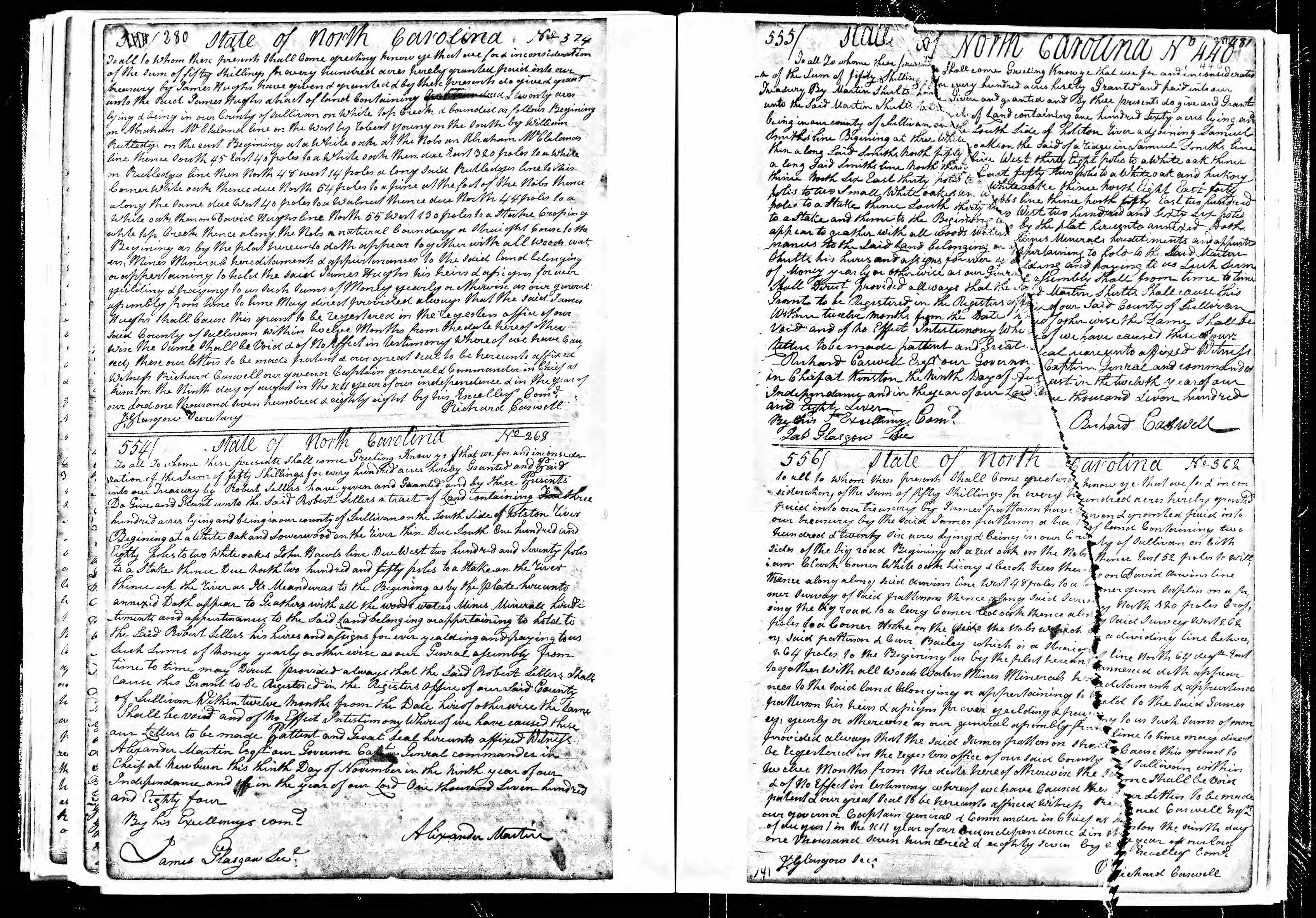 Land Deed detailing the purchase by "Dr. Martin Shultz"